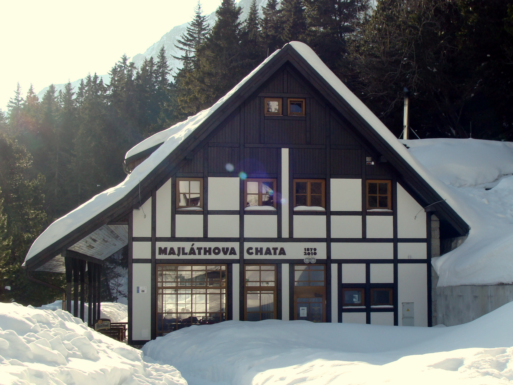 New Majláth mountain shelter by Popradské pleso lake in Slovak High Tatras